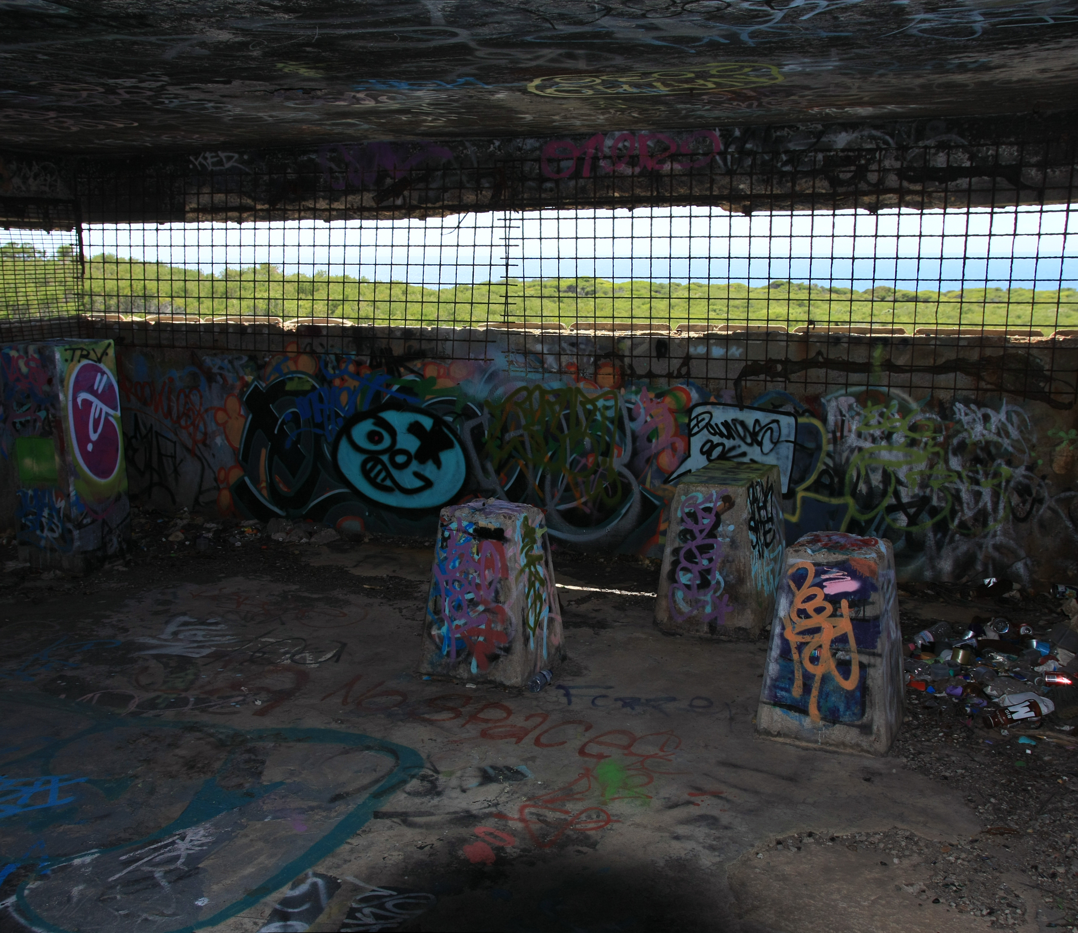 Malabar Battery : Inside the observation post.